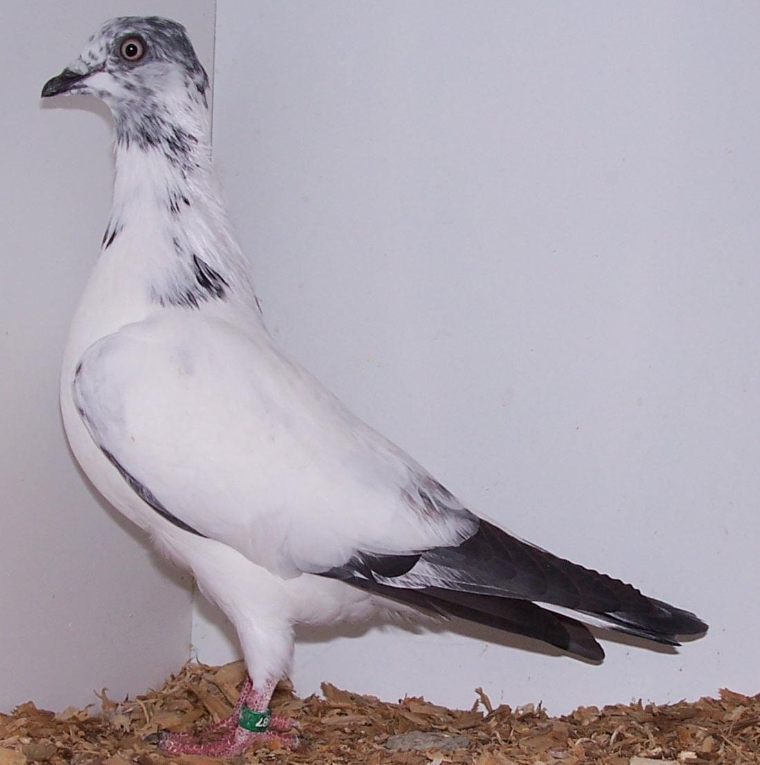 A Vienna Highflier pigeon at the 2008 Queensland State Show. This bird is an old hen owned by John Thomas.